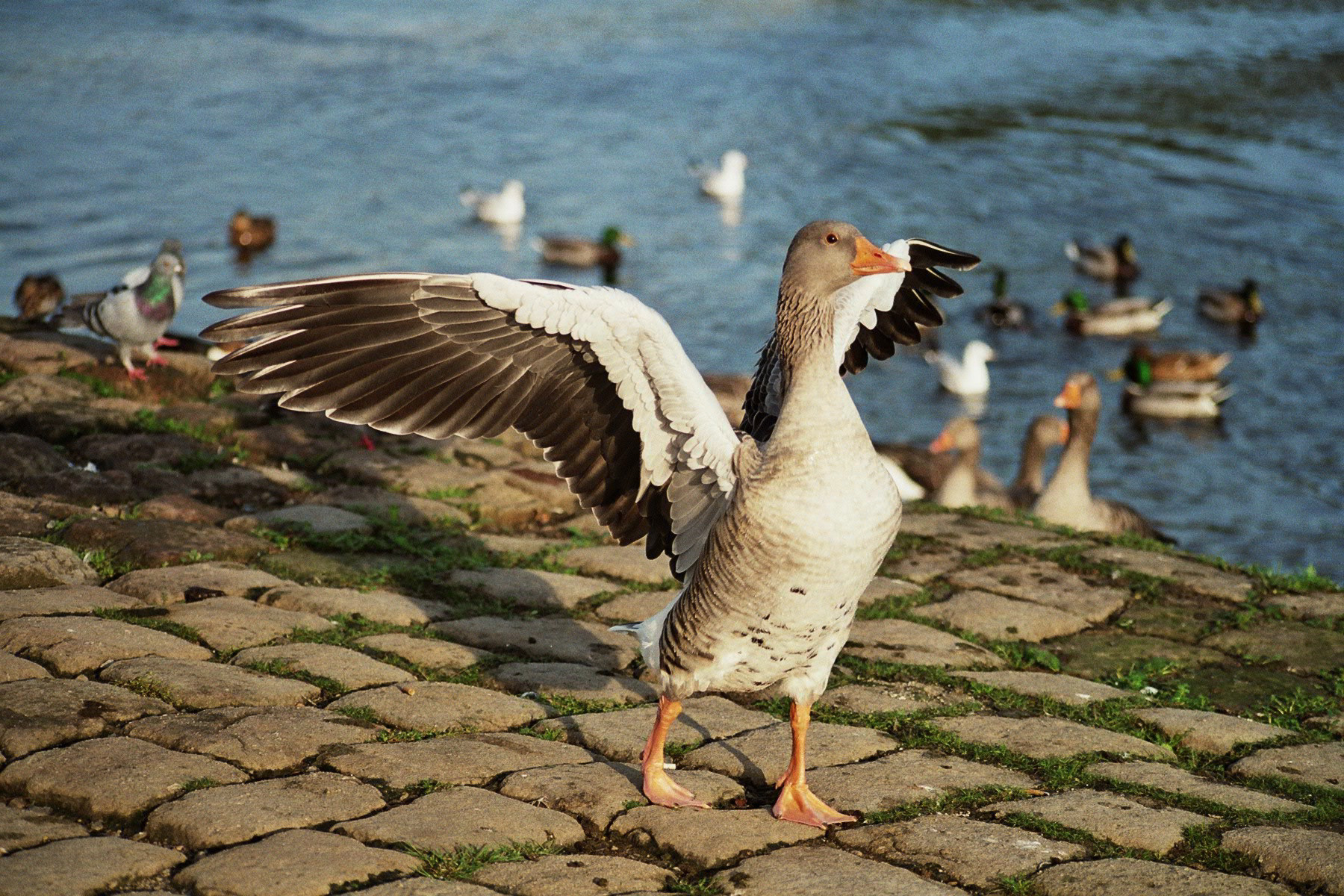 This image shows a Greylag Goose (Anser Anser) spreading its wings.